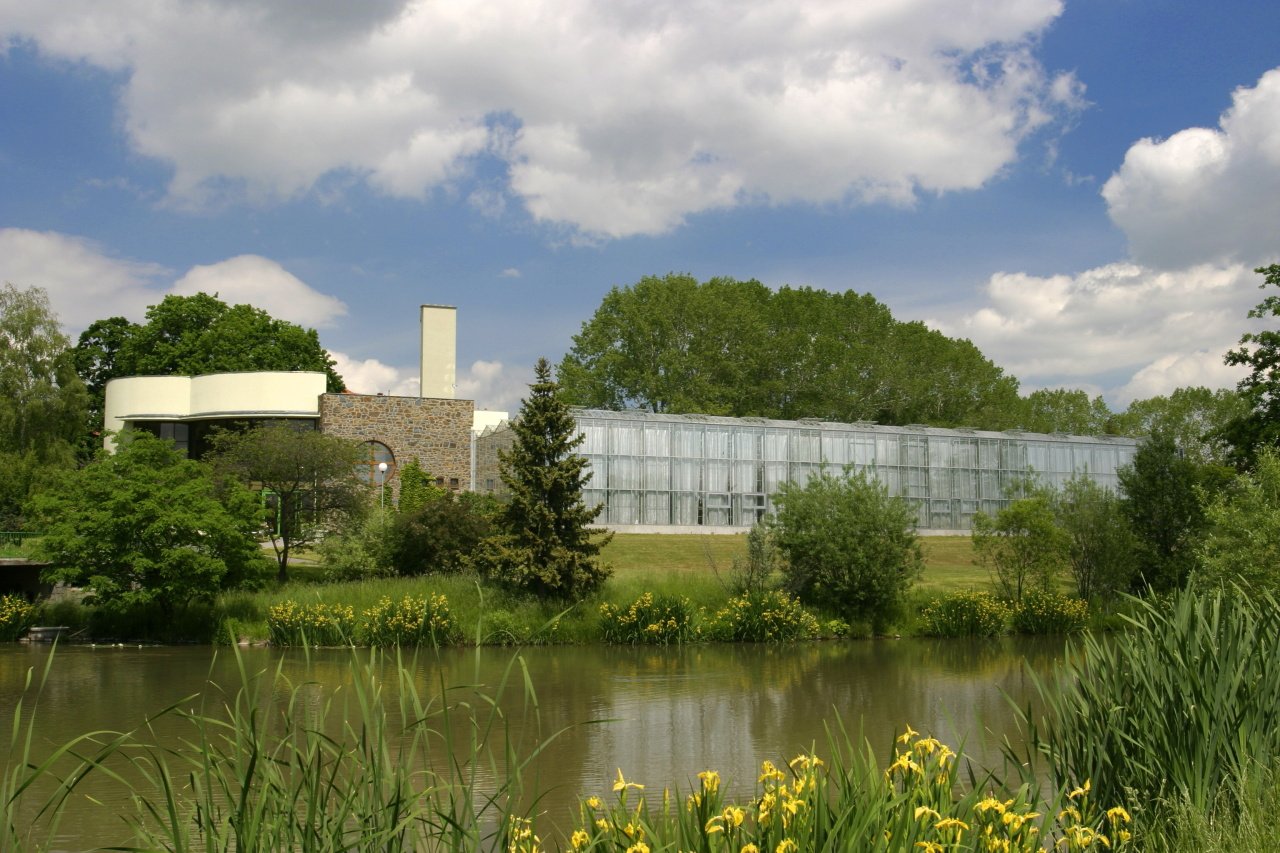 Silesian museum - Arboretum 2